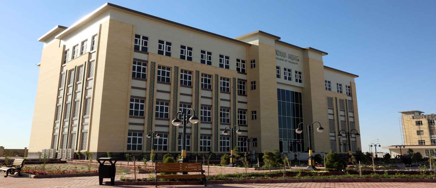 Faculty of Pharmacy - Alkafeel University